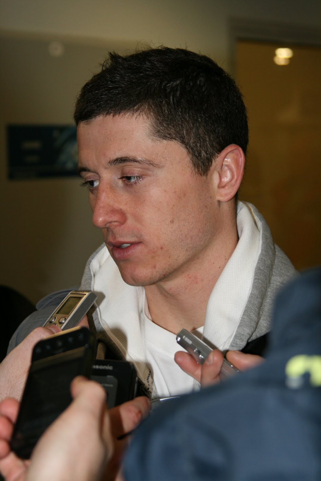 Polish football player Robert Lewandowski after Lech Poznań's match